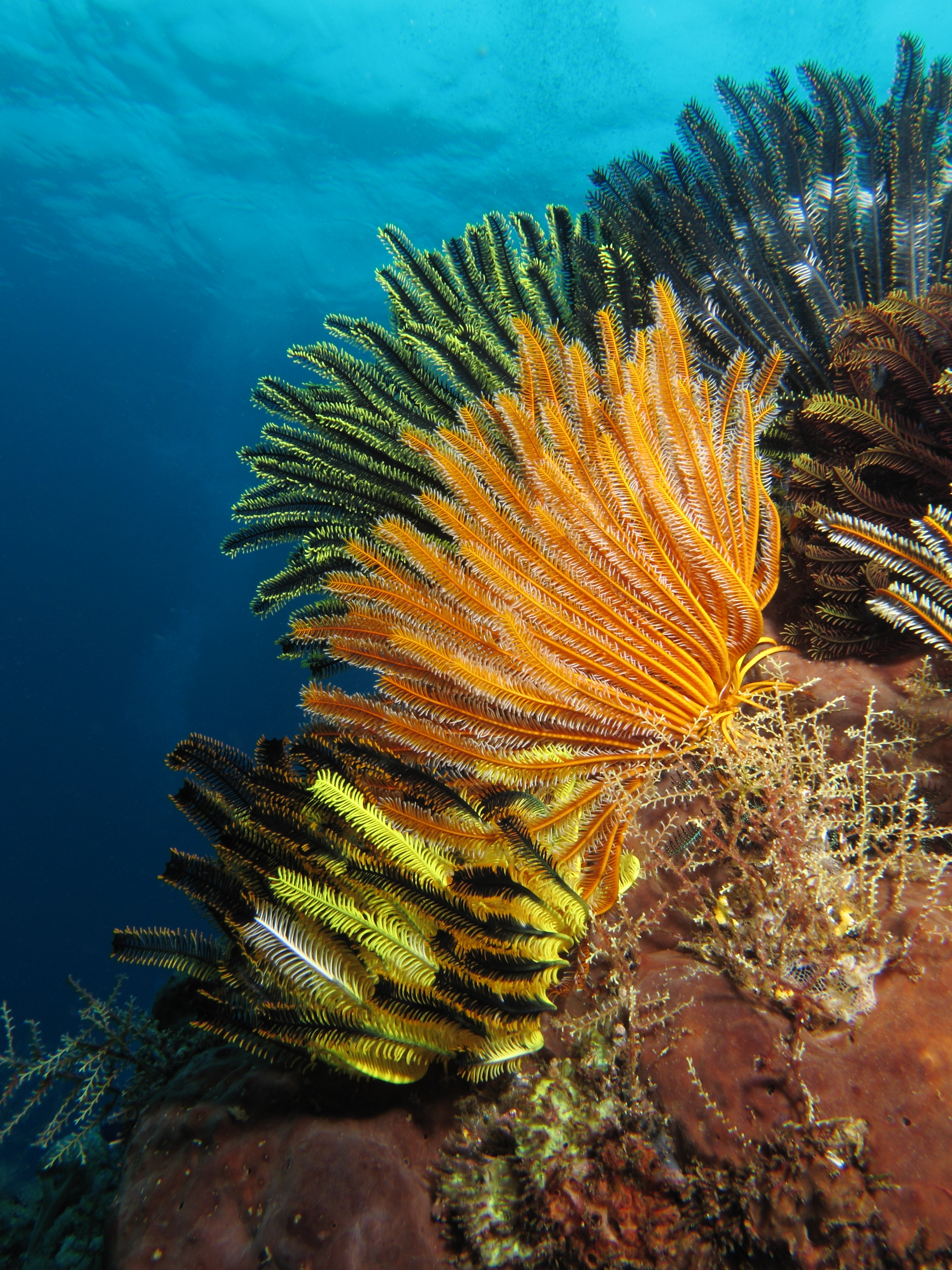 Colorful crinoids at shallow waters of Gili Lawa Laut (near Komodo Island, Indonesia)